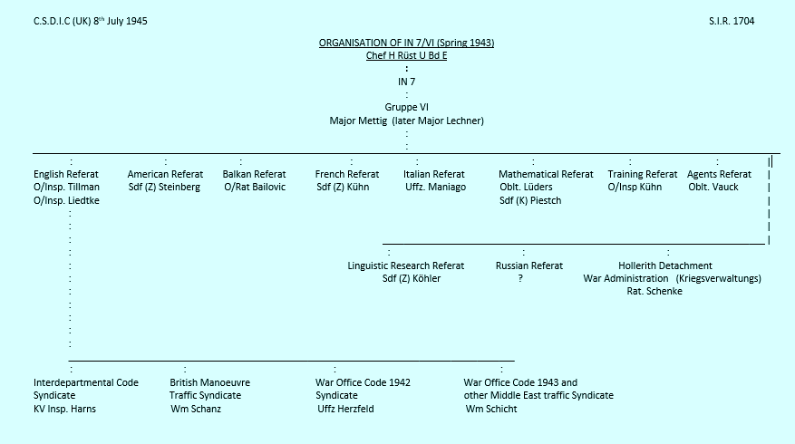 Organization chart of German Inspectorate 7 Sig Int organization during Spring 1943 for Group VI. Other information Organization chart.